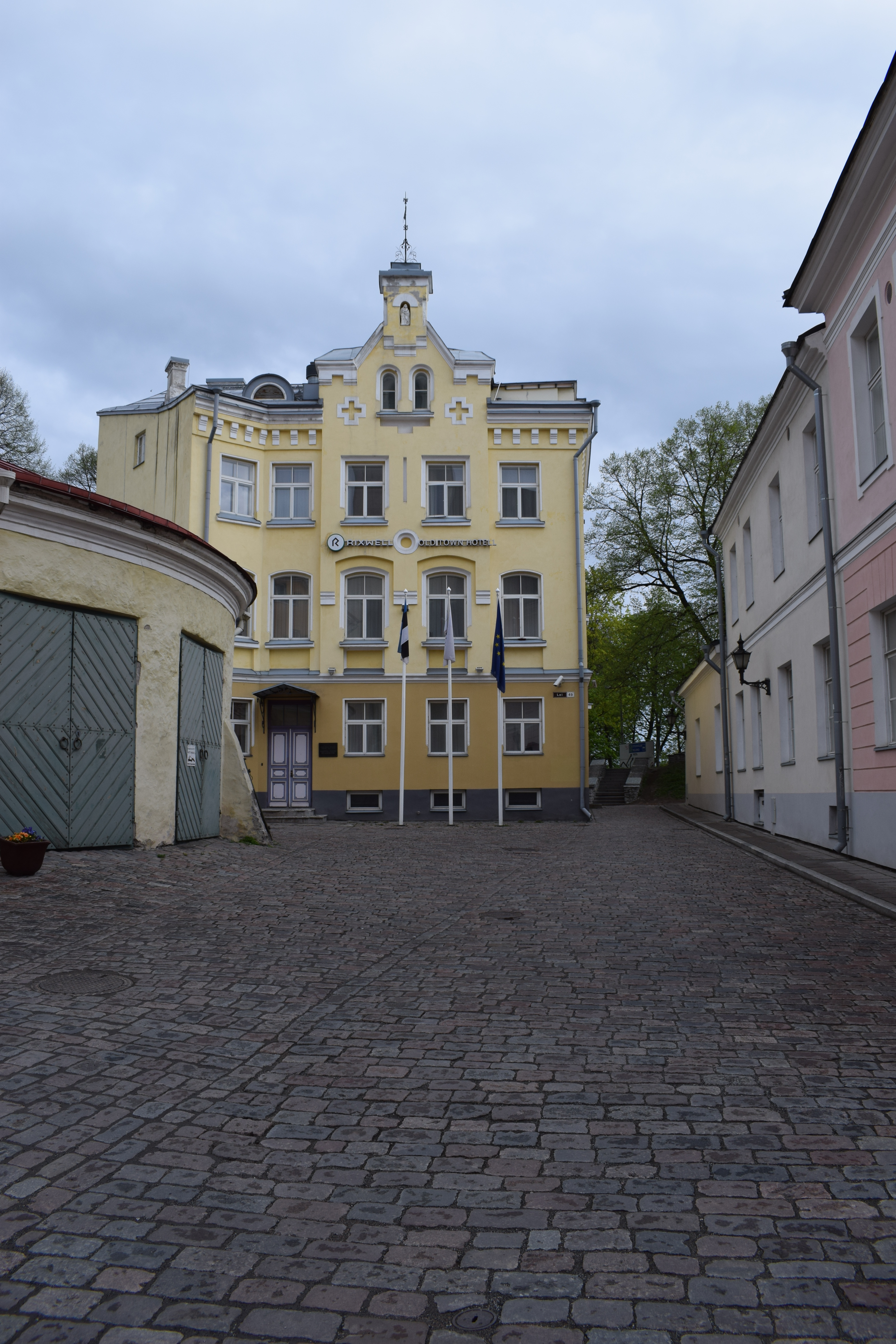 Rixwell Old Town Hotel